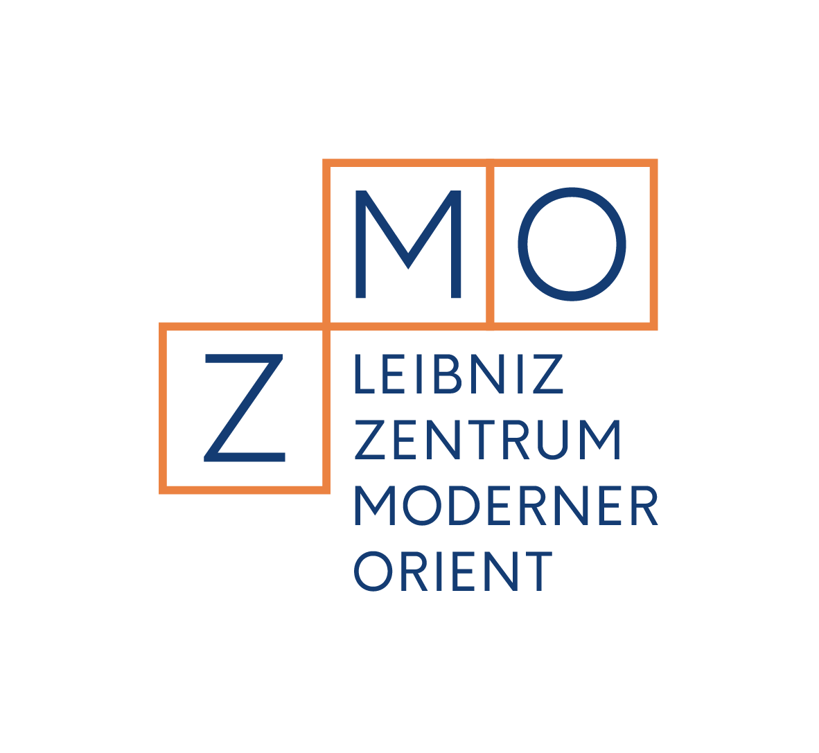 ZMO logo mit weißen Hintergrund und blauer Schrift